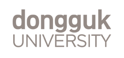 Logotype of Dongguk University.